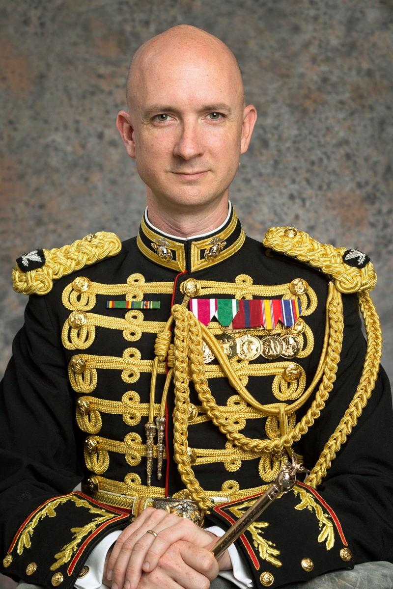 Depicted person: Jason Fettig – United States Military officer and band leader